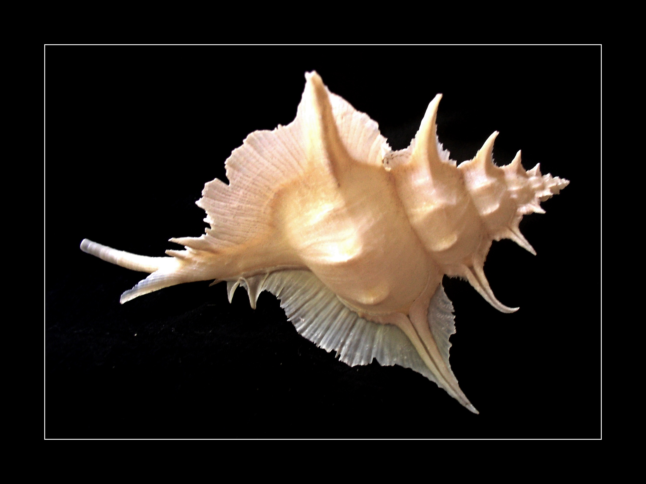 Alabaster Murex - Siratus alabaster; Mindanao, the Philippines